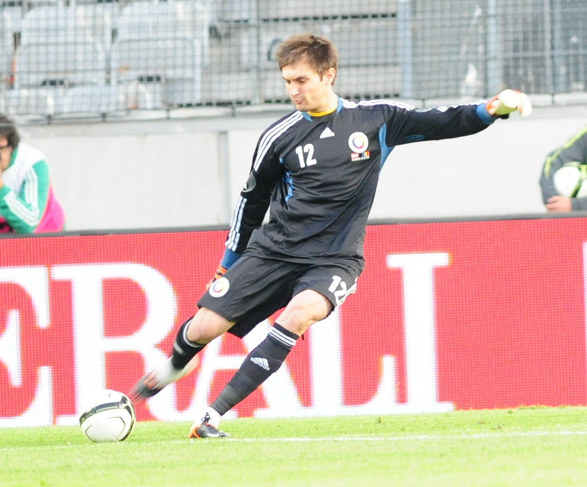 Exhibition game Austria vs. Romania at 5st. June 2012